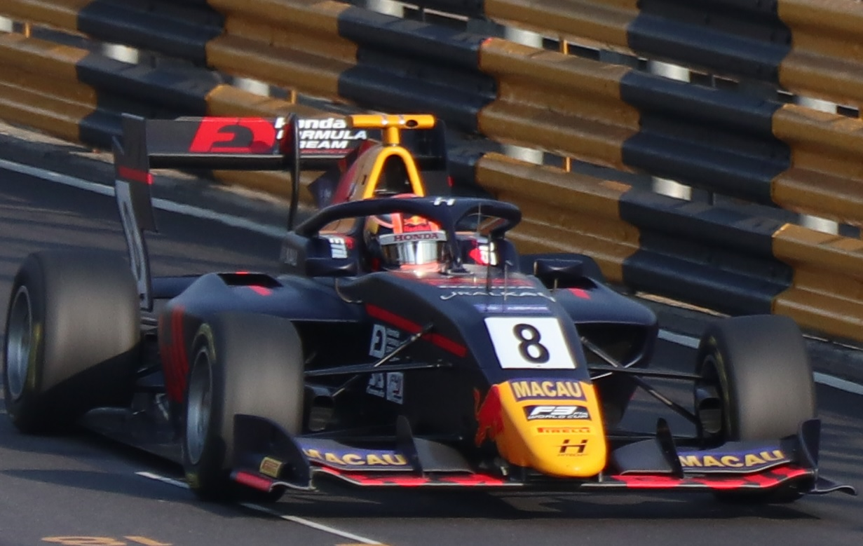 Yuki Tsunoda at 2019 Macau Grand Prix